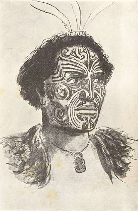 Hongi Hika (1772–1828), Maori chief and war leader of the Ngāpuhi iwi in New Zealand. From a sketch by Major-General G. Robley, after the portrait painted in England in 1820.